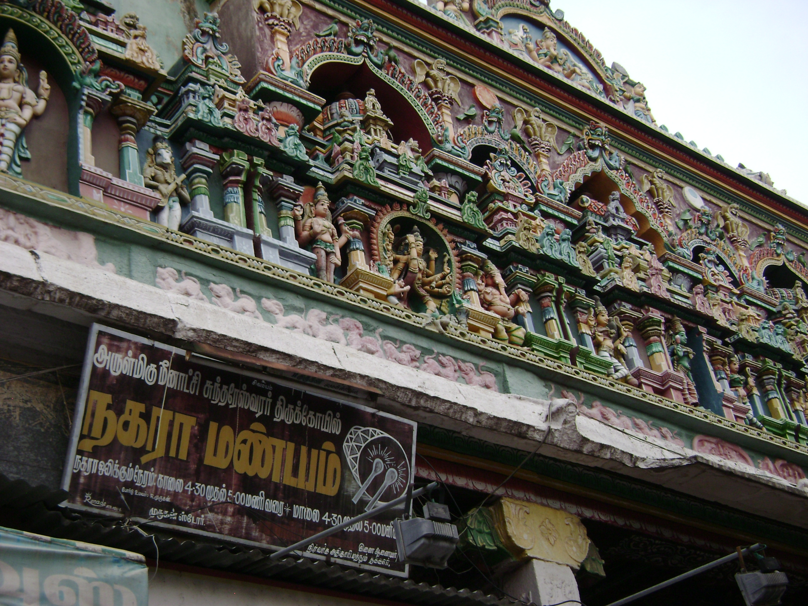 Drum Hall, in front of Madurai Meenakshi Temple